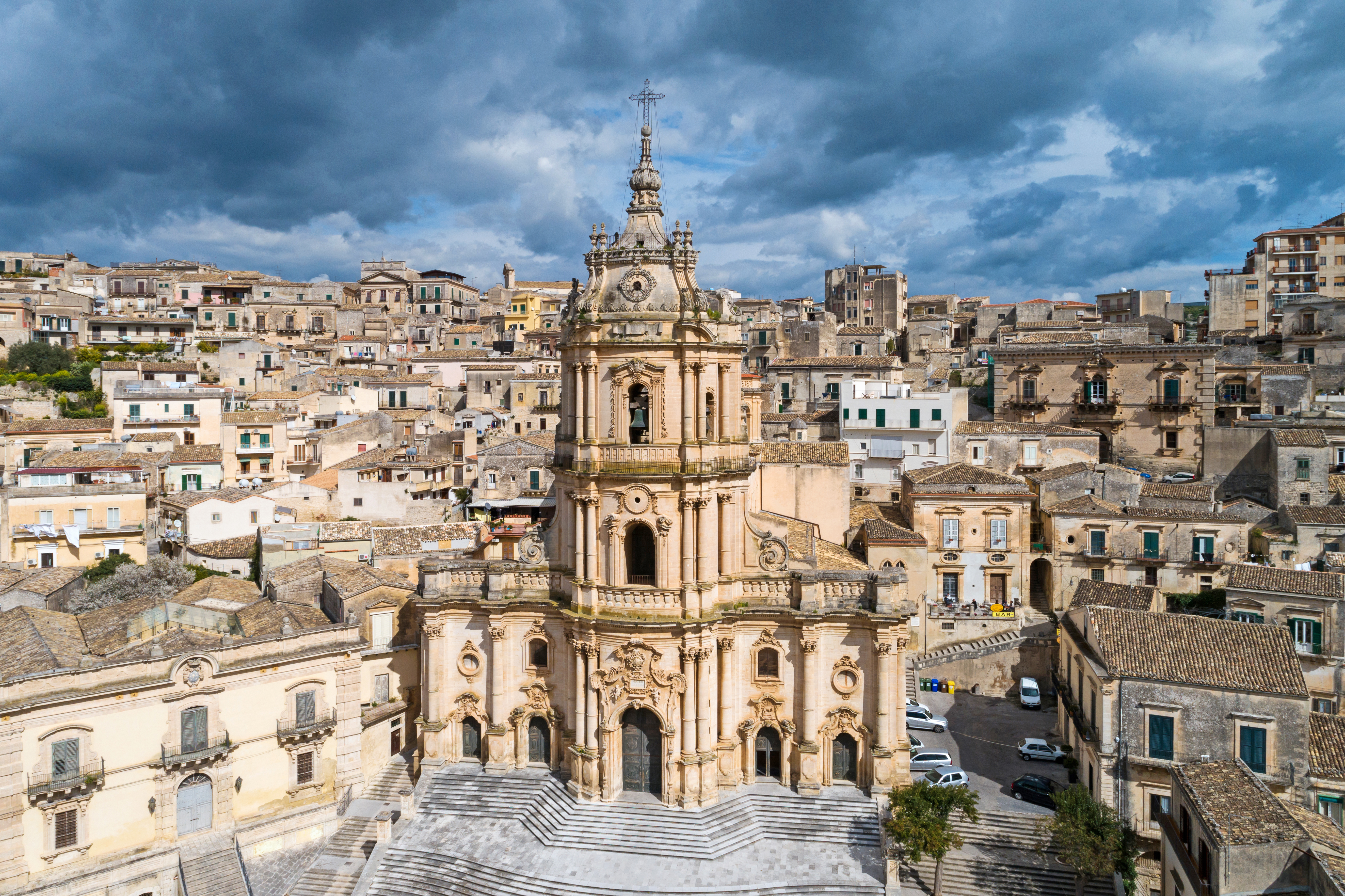 Saint George Cathedral, Modica, Sicily